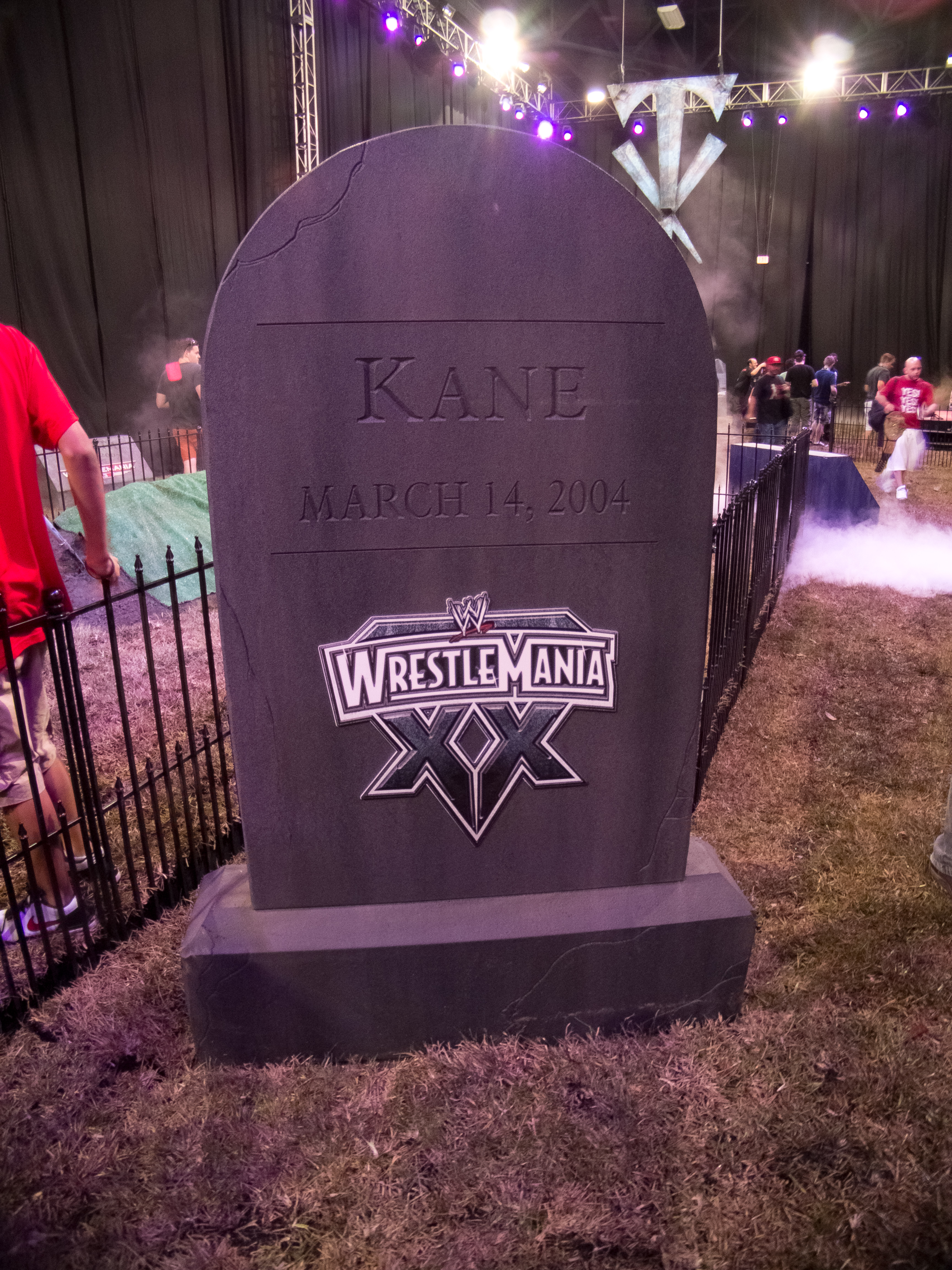 The Undertaker's Graveyard @ Axxess